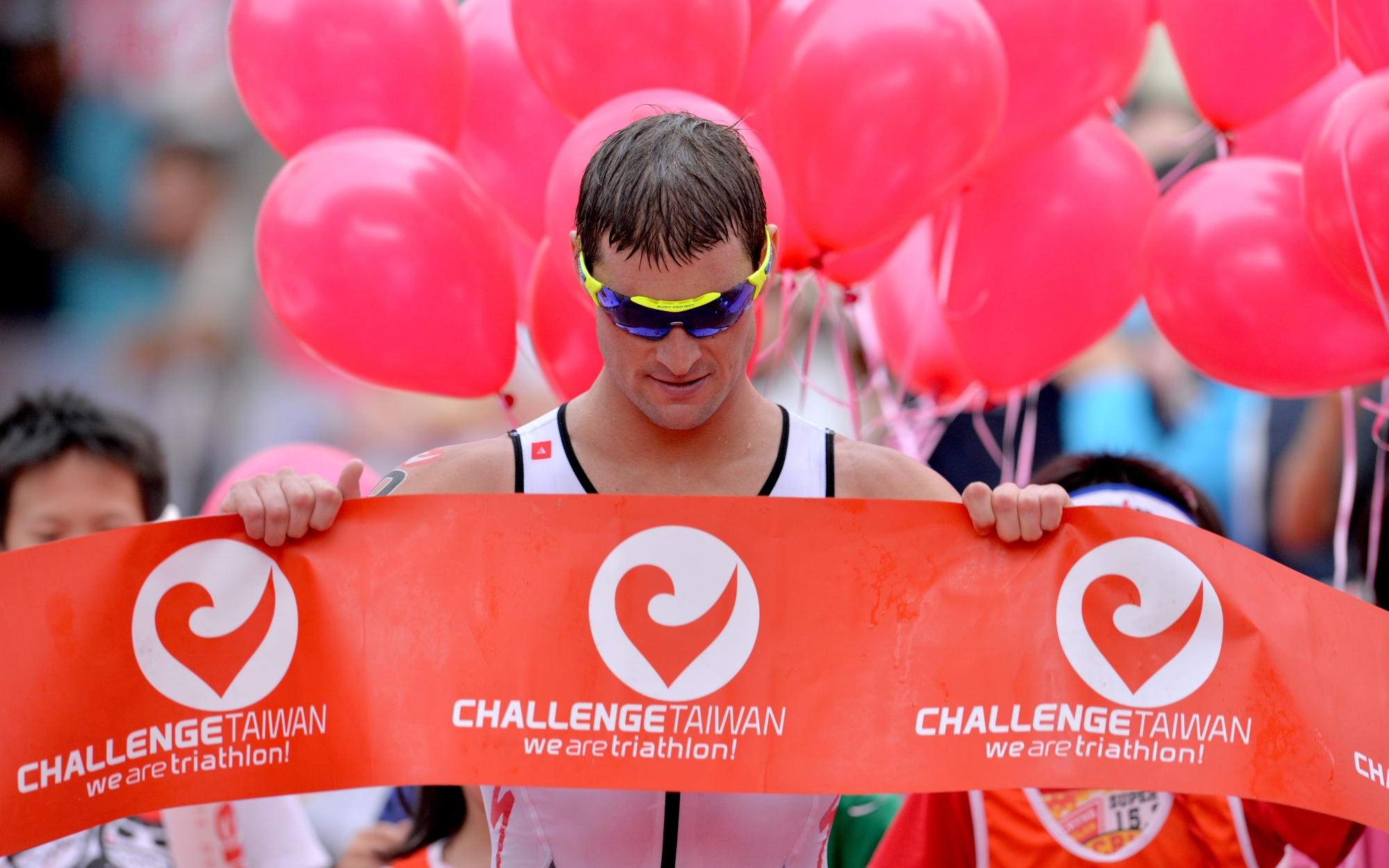 Dylan McNeice winning Challenge Taiwan 2013